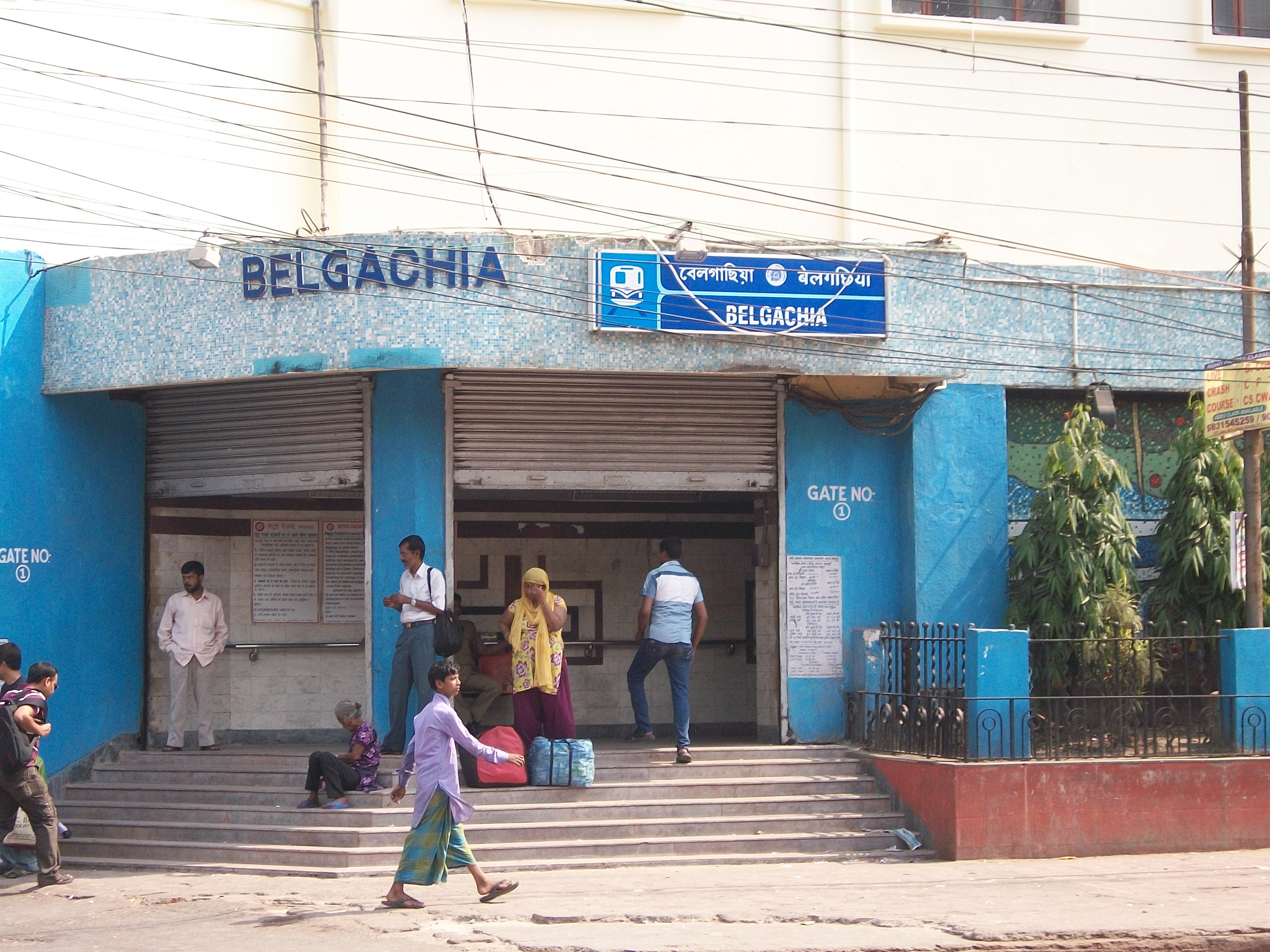 Belgachia Metro Station,Calcutta Metro/Metro Railway Kolkata